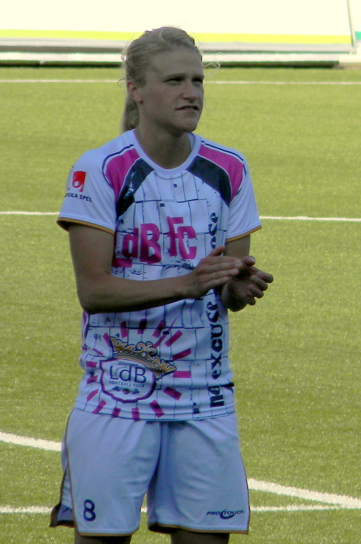 Frida Nordin, a swedish player from LdB FC Malmö